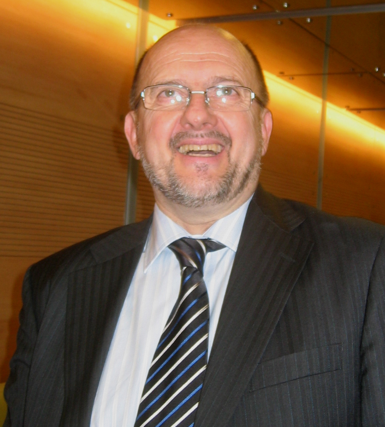 Zmago Jelinčič, slovenian politician